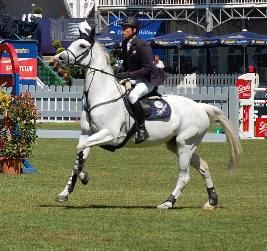 German rider Carsten-Otto Nagel with Corradina, "Massimo Dutti Trophy" (jumping competition against the clock), CSI 5* Hamburg 2011